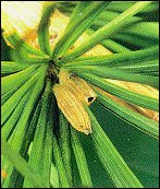 Coleophora laricella. Two cigar-shaped pupal cases fastened in the center of a needle whorl.